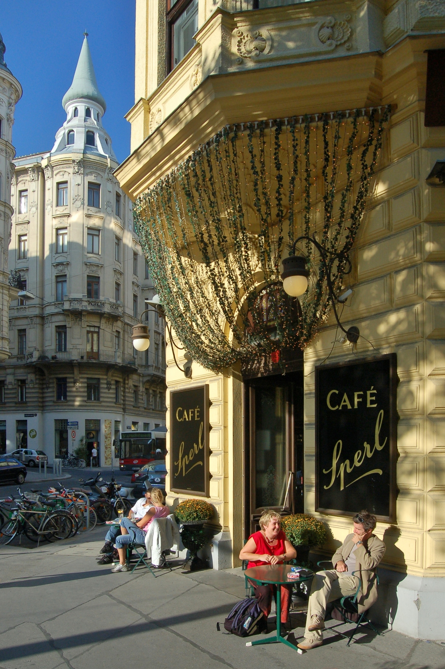 The entrance to Café Sperl, Vienna, Austria.